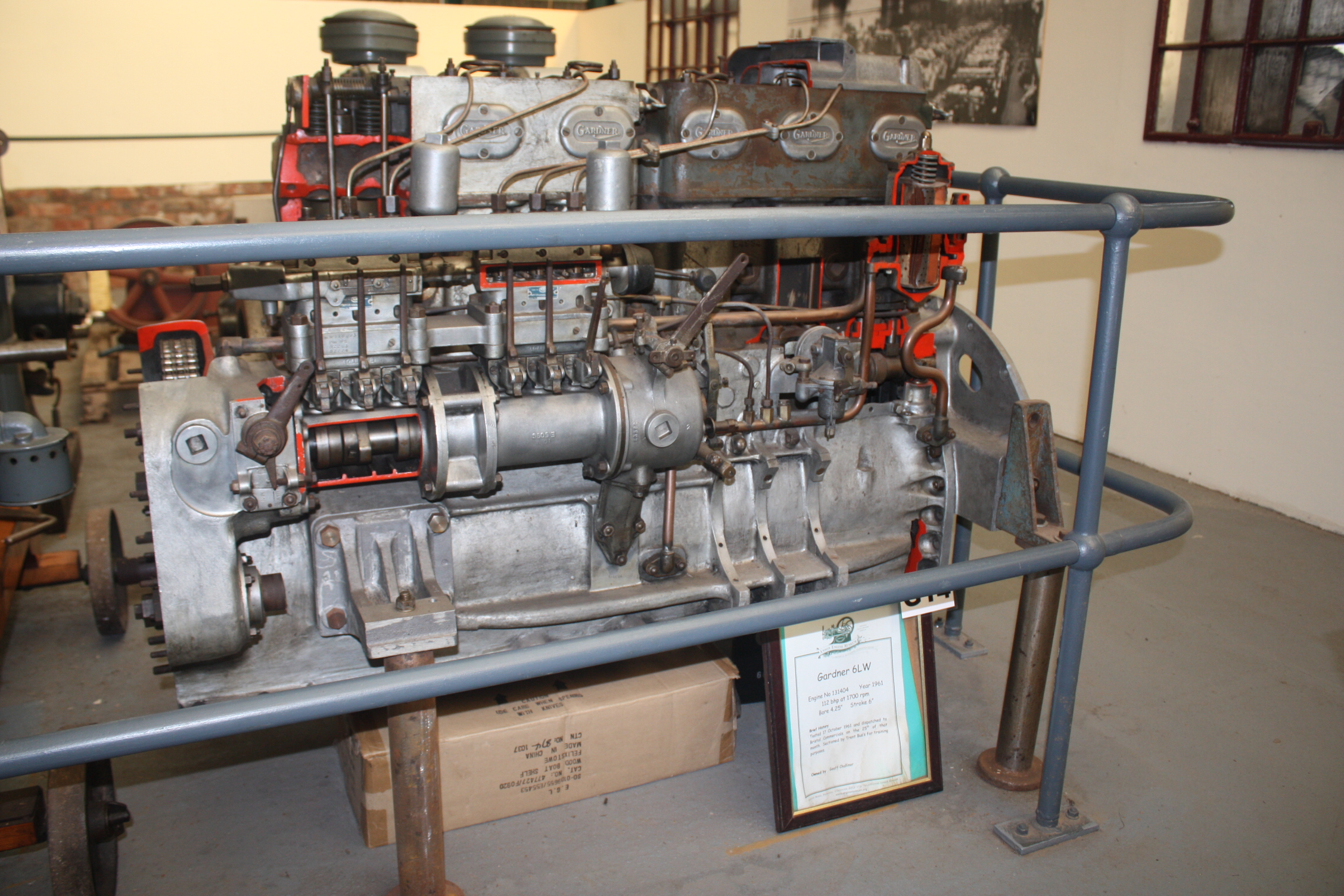 A Sectioned Gardner 6LW engine built in 1961 for use in a Bristol Commercials Bus. This engine was used for training purposes by Trent Bus co. The Engine is on display in the Anson Engine Museum at Poynton Nr Manchester England.